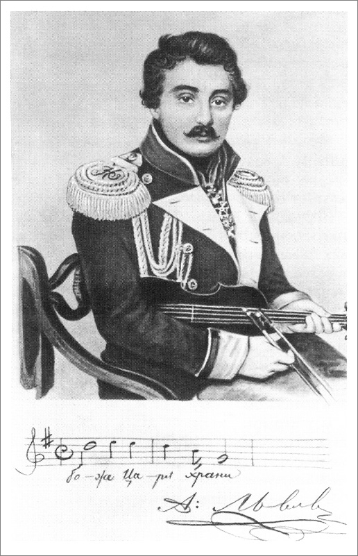 Alexis Lvov & God Save The Tsar!. Book illustration from the beginning of the 20th century. Autographs of sheet music and lyrics by Lvov and Zhukovsky.